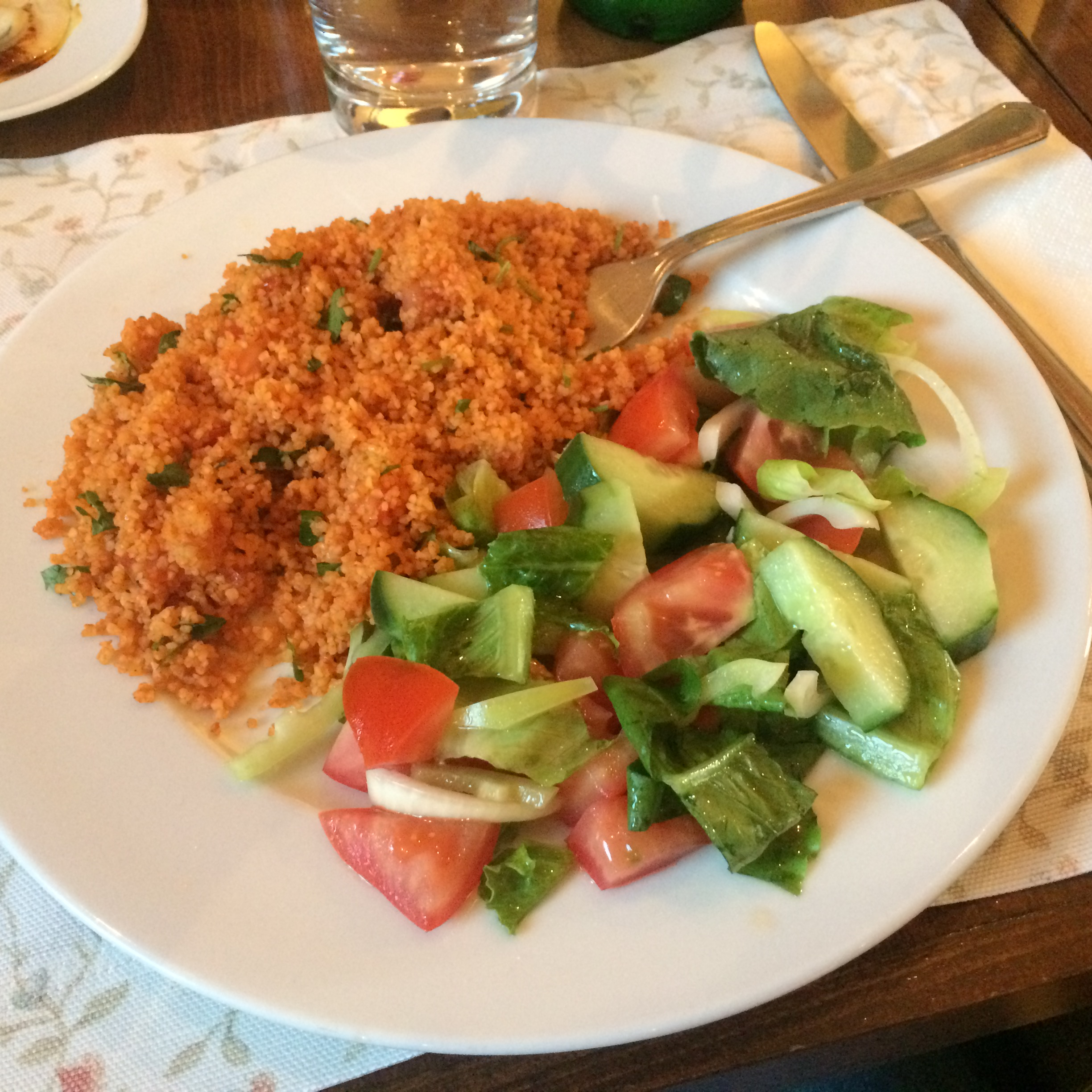 Armenian Eech in Yerevan restaurant Charentsi 28.